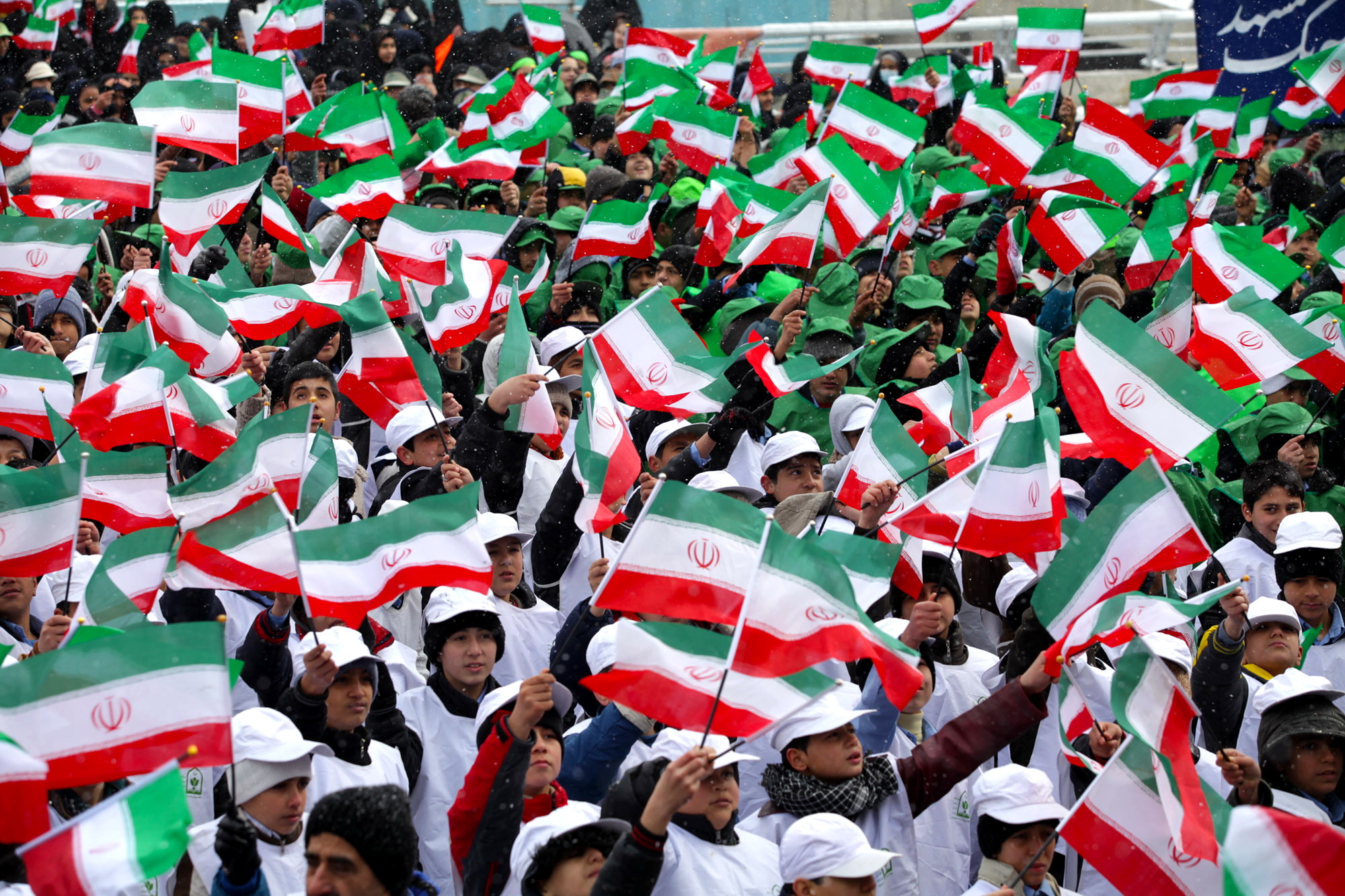 Feb 2 2014 - Martyrs Sq - Mashhad - 12th of Bahman